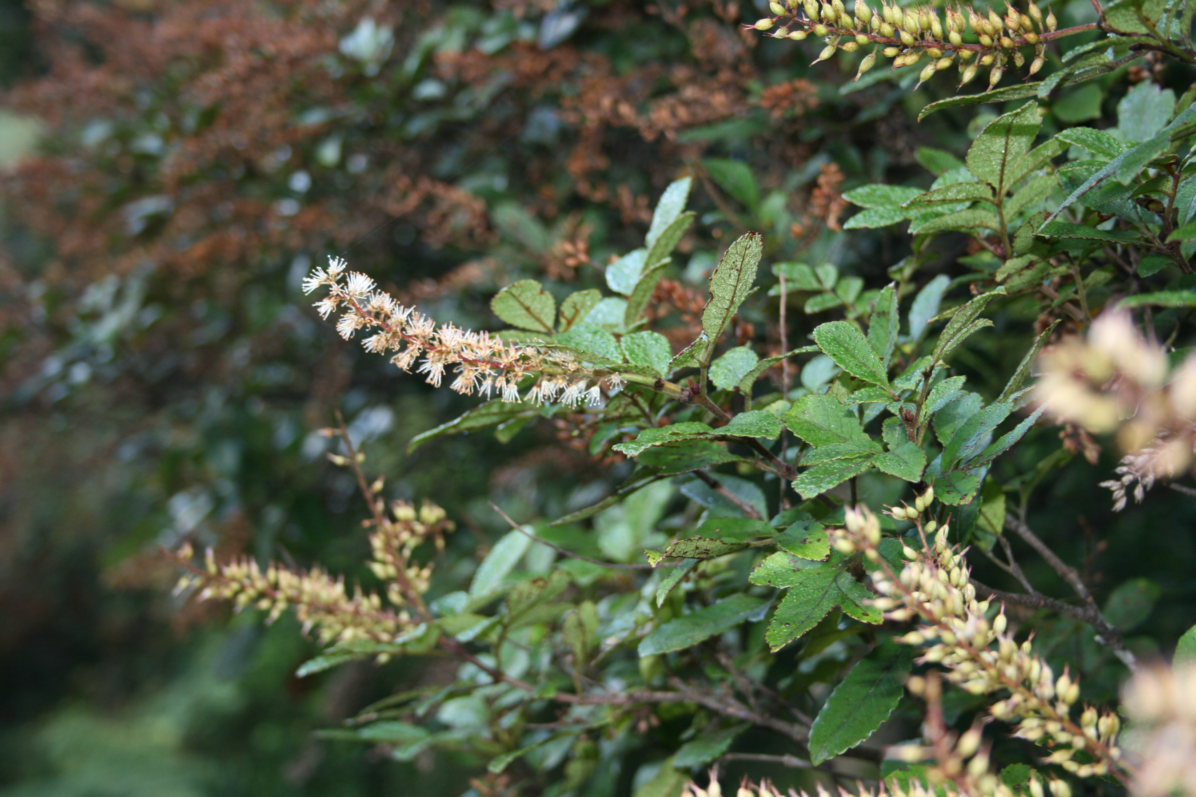 flowers of Tōwai or Tawhero, (Weinmannia silvicola), (Cunoniaceae), a tree of the north of the North Island of New Zealand. Taken at Opua, Bay of Islands.